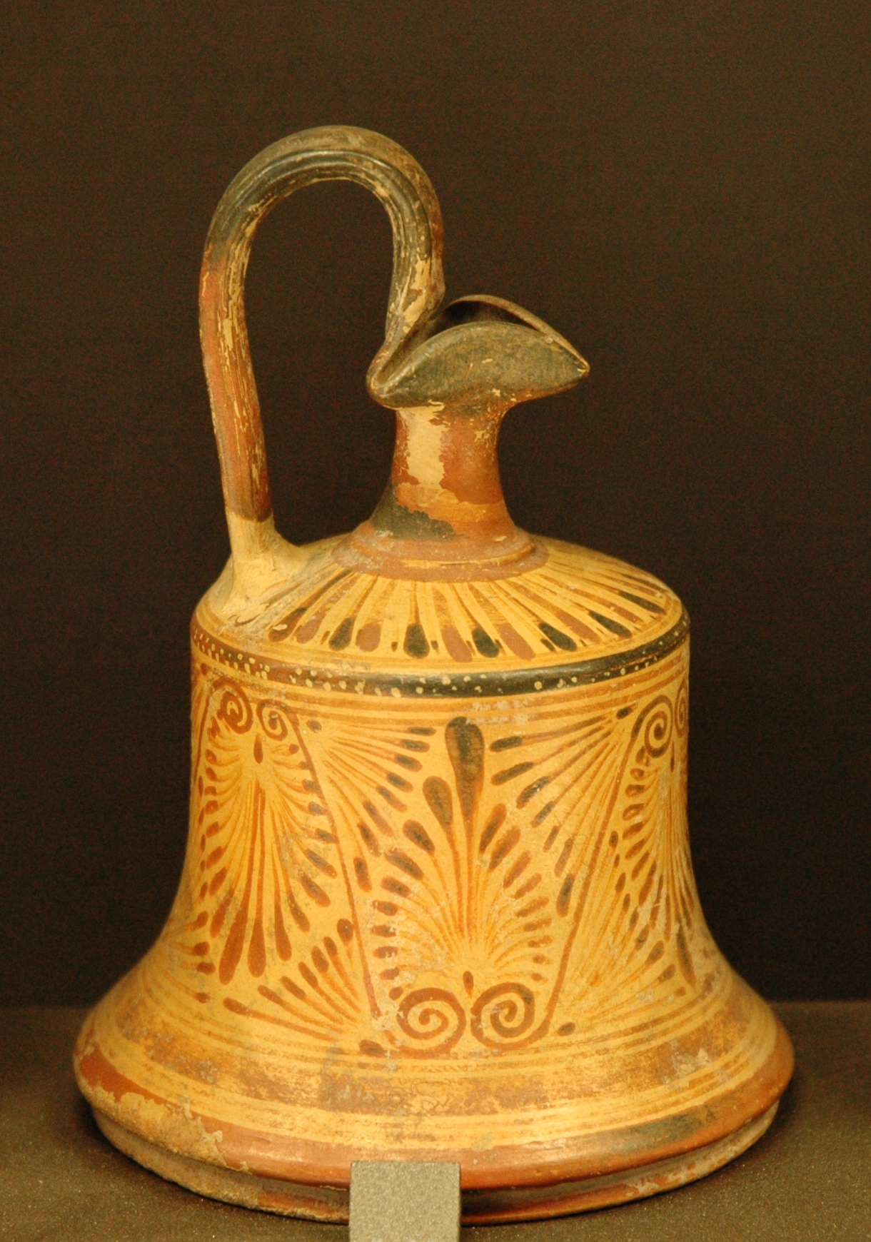 Palmettes. Oenochoe, Late Corinthian style, ca. 425-400 BC. Found in Chorsiai, Boeotia.